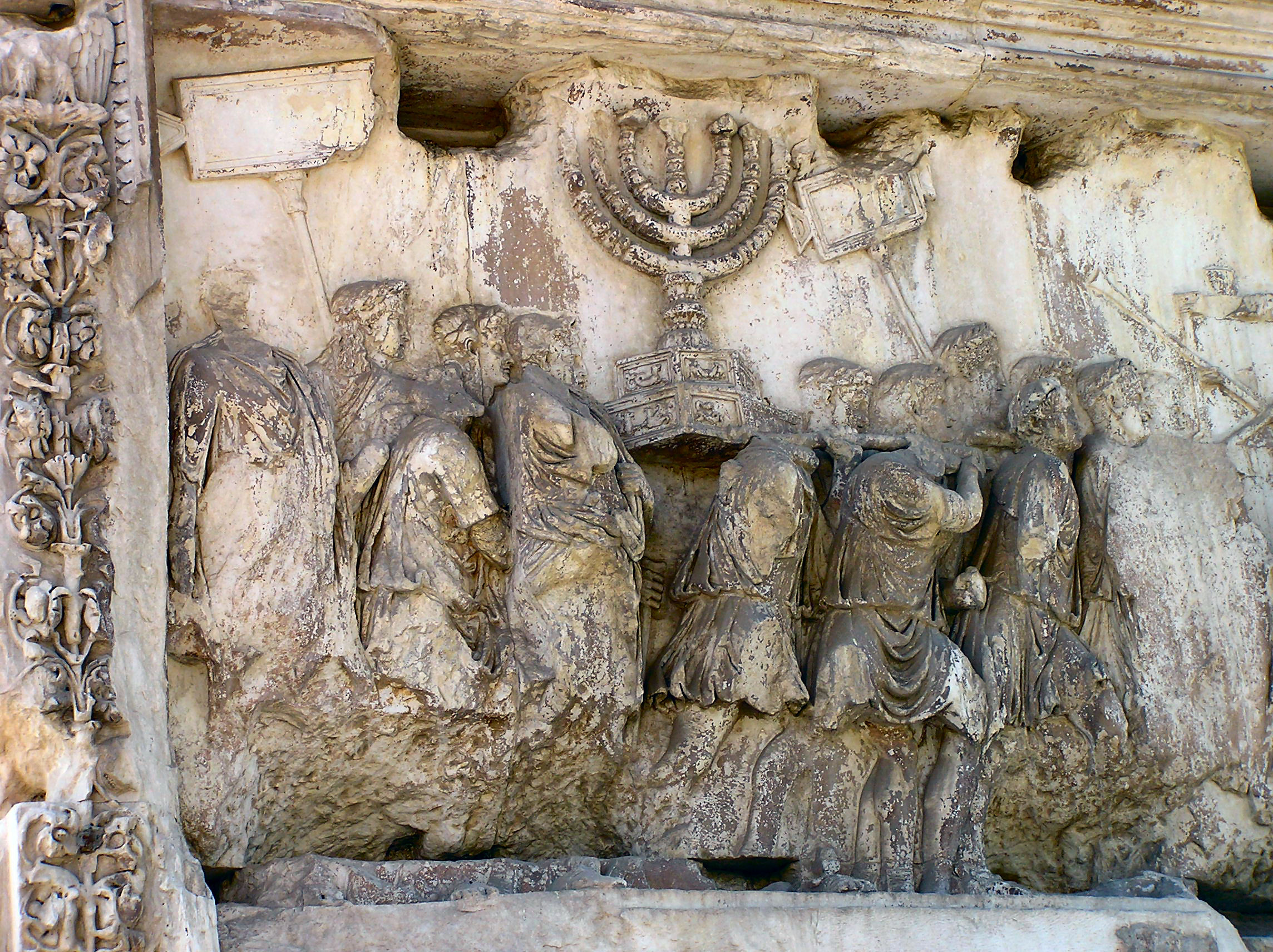 In this part of Titus' triumphal procession (from the Arch of Titus in Rome), the treasures of the Jewish Temple in Jerusalem are being displayed to the Roman people. Hence the Menorah.